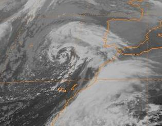 Possible Subtropical Storm off the coast of Portugal.